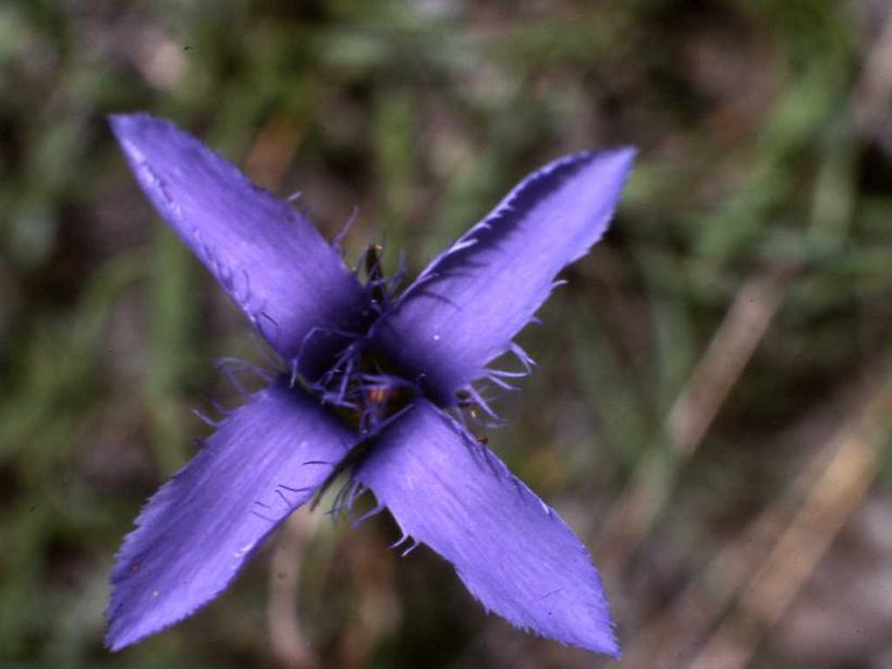 Gentianella ciliata - Gentianopsis ciliata